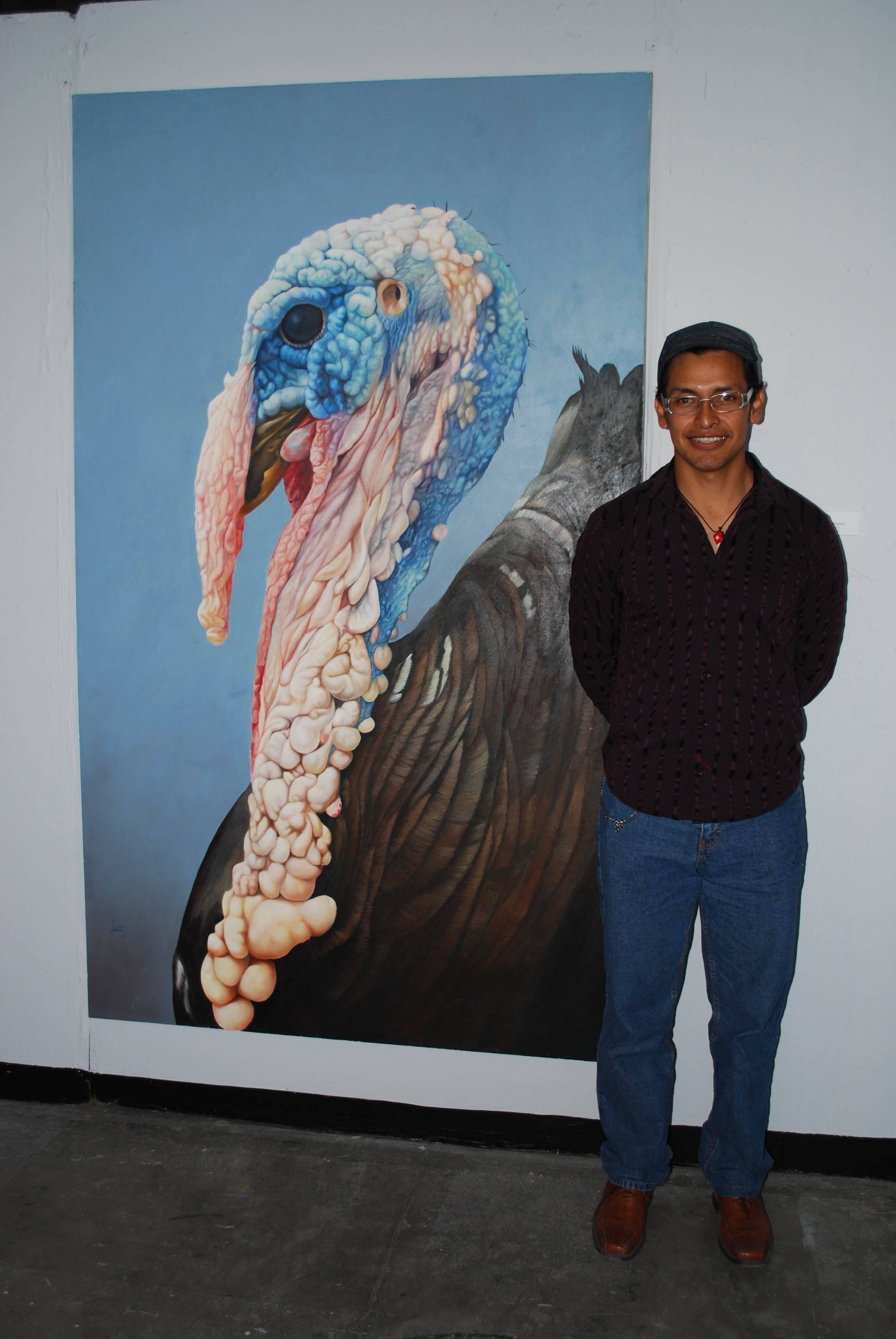 Arturo Lemus Beltrán with painting "Guajalote" at the openining of the Nuevo Realismo Latinoamericano exhibit at the Fábrica de Artes y Oficios de Oriente (FARO) in Iztapalapa, Mexico City